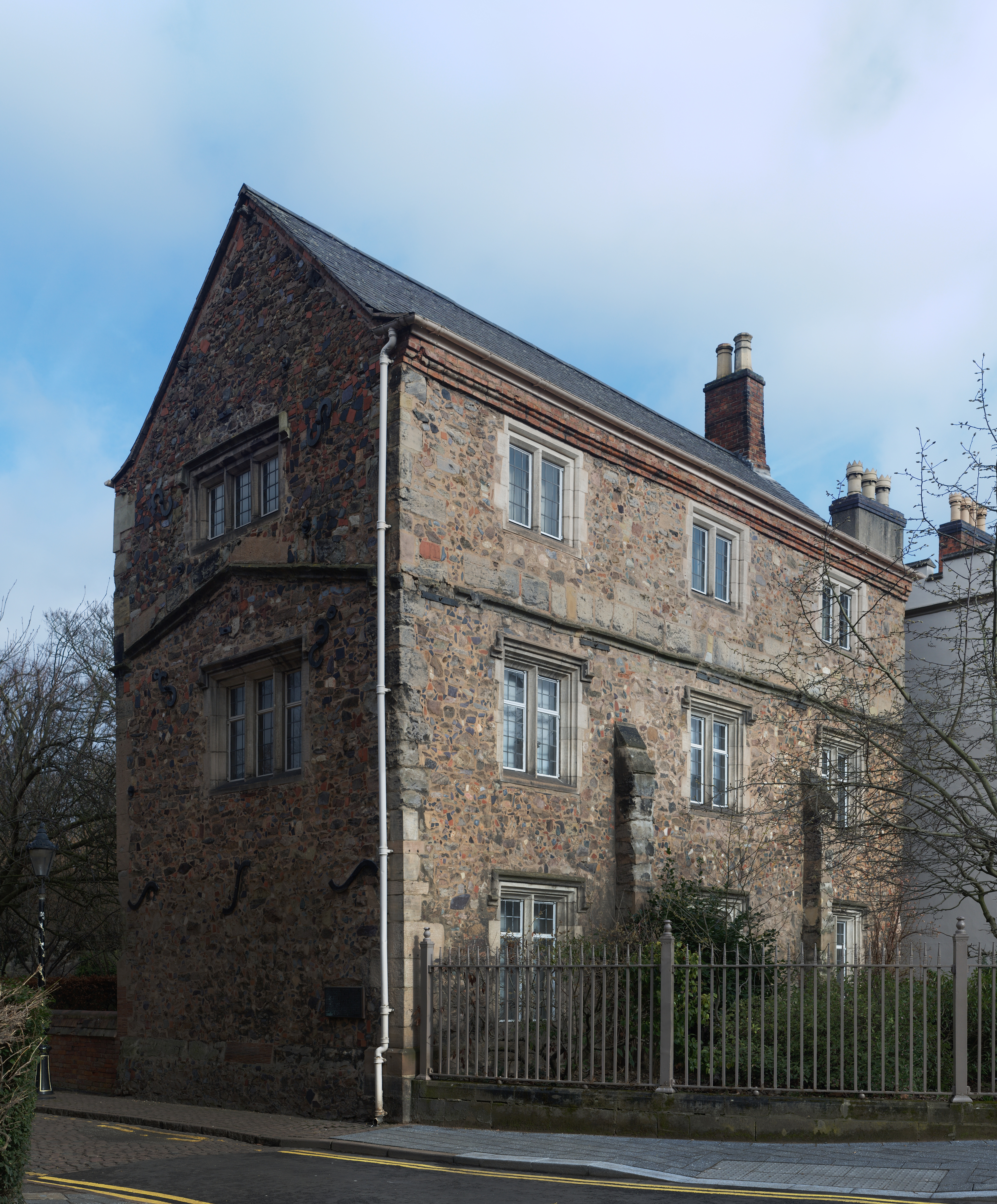 Wyggeston's Chantry House in Leicester: grade II* listed and part of the Newarke Houses Museum.[1][2]. Built by William Wyggeston as a chantry house.